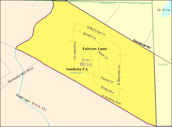 Map of Fairview Lanes, a census-designated place (CDP) in Erie County, Ohio, United States, with its boundaries at the time of the 2000 census.